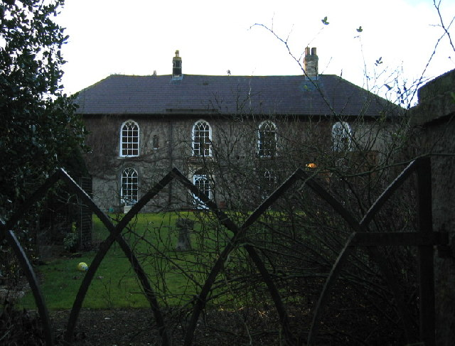 Rudchester Hall. I hope the owners will forgive me for snatching a picture of this very beautiful Georgian house over their garden gate! The history of building on this site goes back much further than the 18th century, however, as the buried foundations of Vindobala Roman Fort lie a few hundred yards away. For more on the house For more on Vindobala